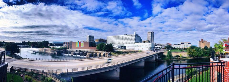 Photo of downtown South Bend, IN.